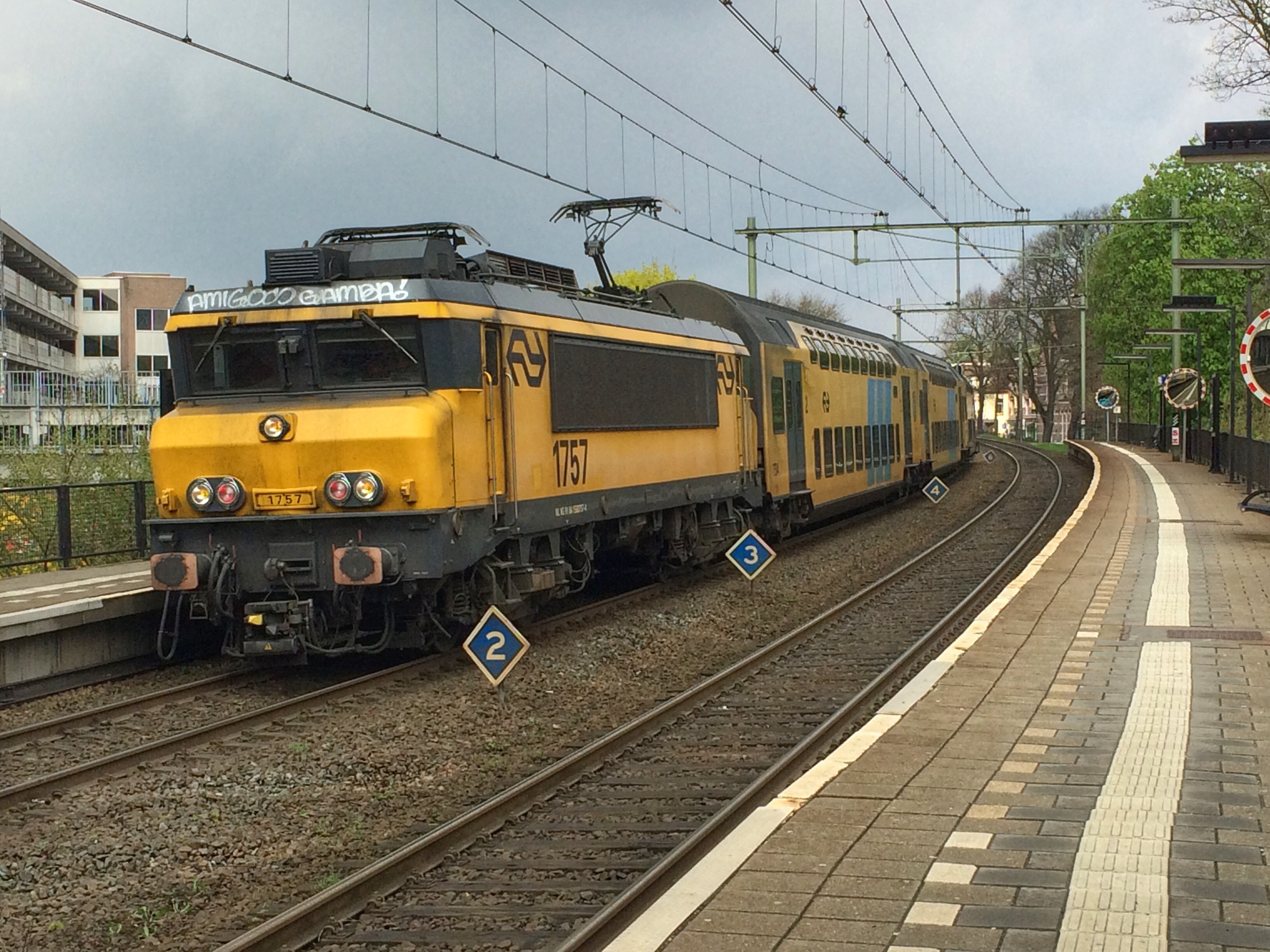 NS locomotive 1757 with DD-AR coaches at Arnhem Velperpoort train station.